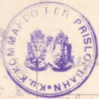 Seal of the Prislopbahn military administration